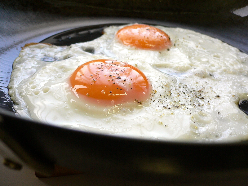 Eggs, sunny-side up, frying in a pan.